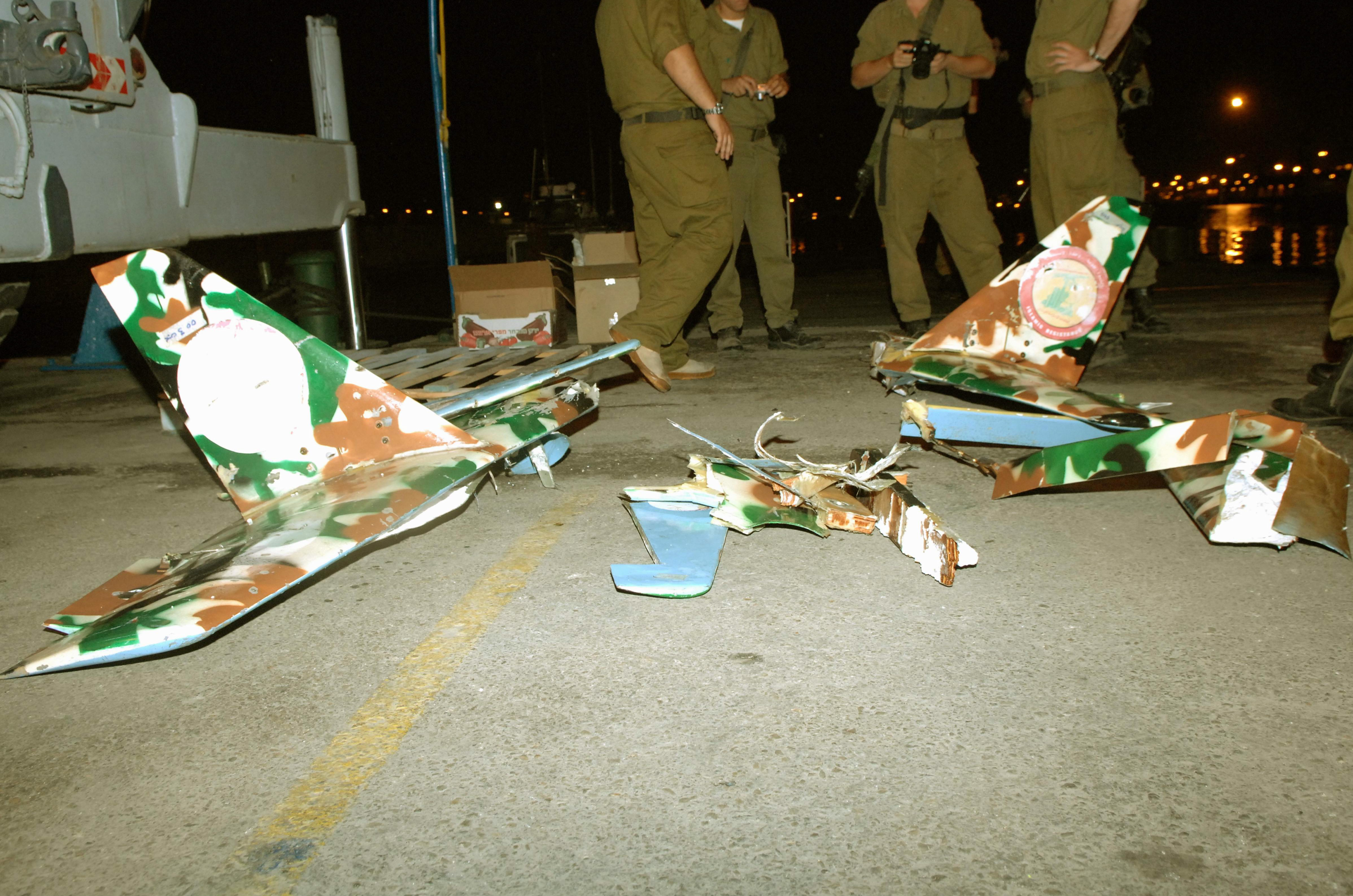 August 7, 2006 Pieces of a Hezbollah UAV (Unmanned aerial vehicle) that was taken down by the Israeli Air Force.